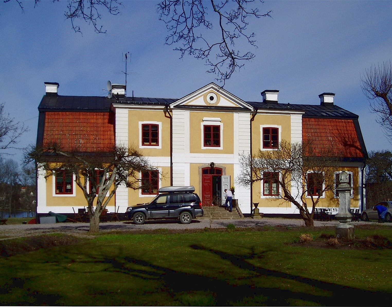 Sköldnora, royal mansion, Upplands Väsby municipality, Sweden